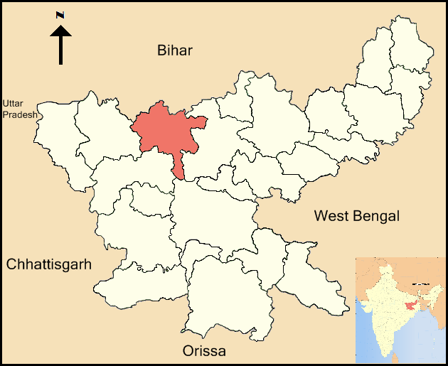 A locator map of Chatra district, Jharkhand state, India